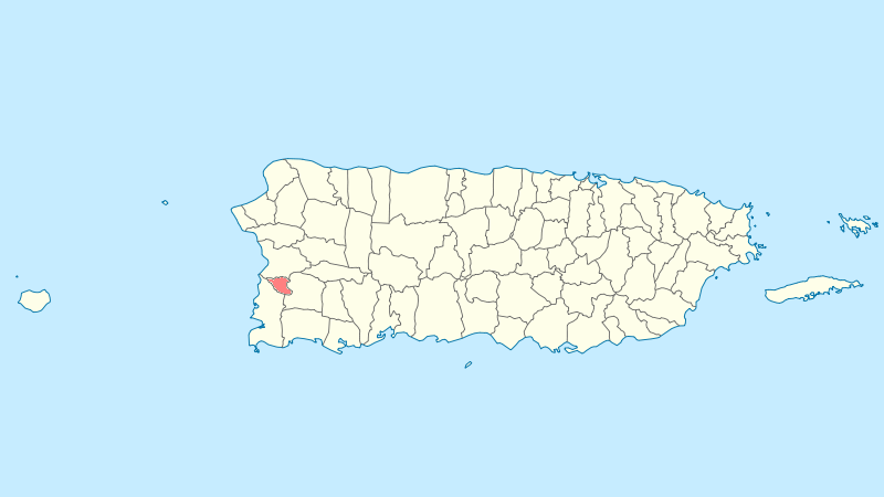 Municipal locator of Puerto Rico